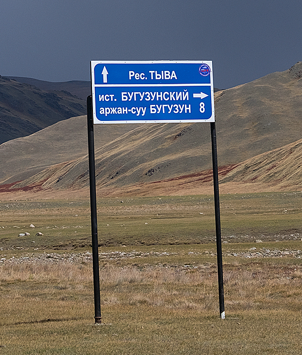 Buguzunsky spring in the Altai Mountains